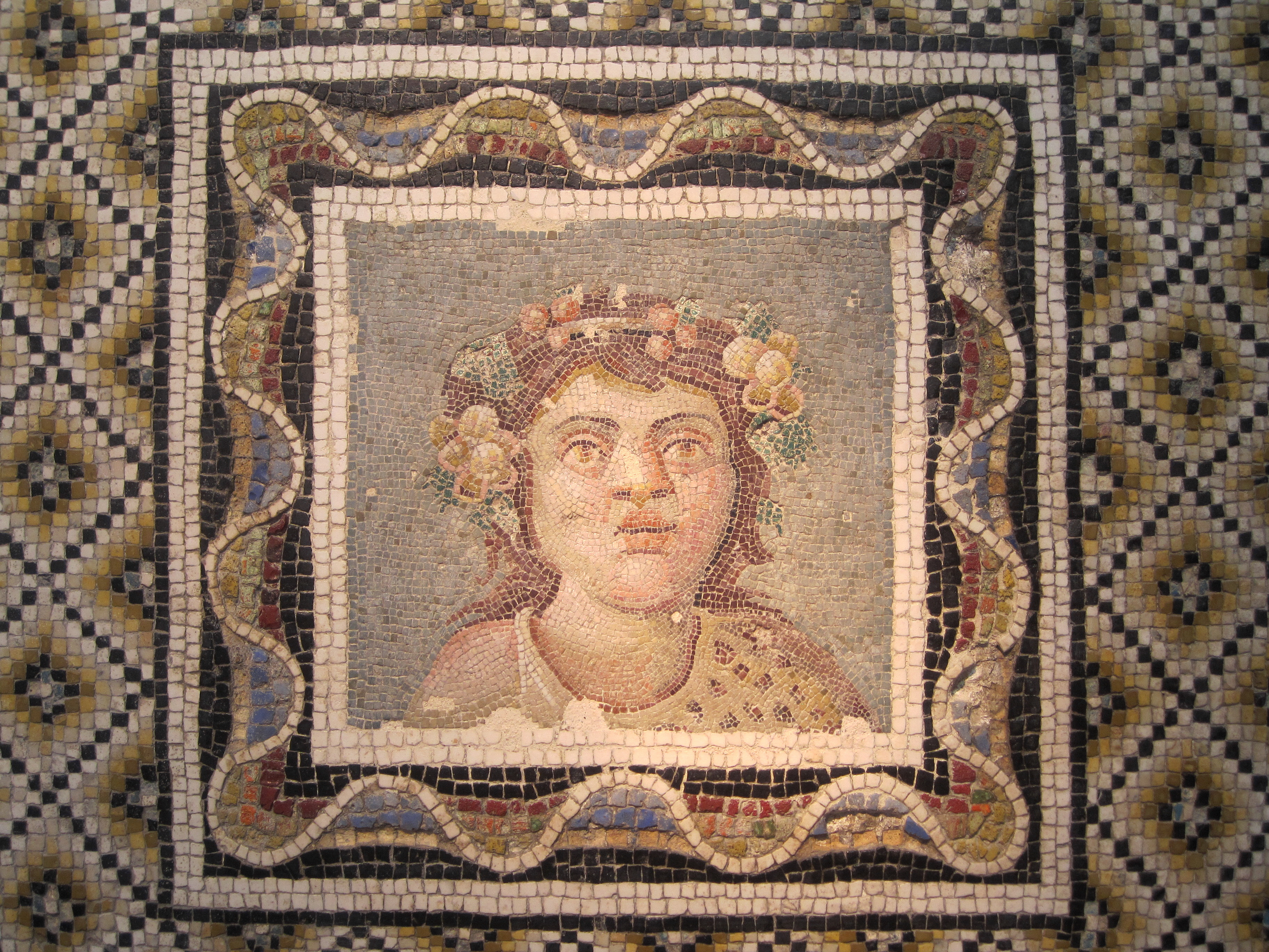 Pavement mosaic with the bust of Dionysus. Opus vermiculatum, Roman artwork of the 3rd century AD